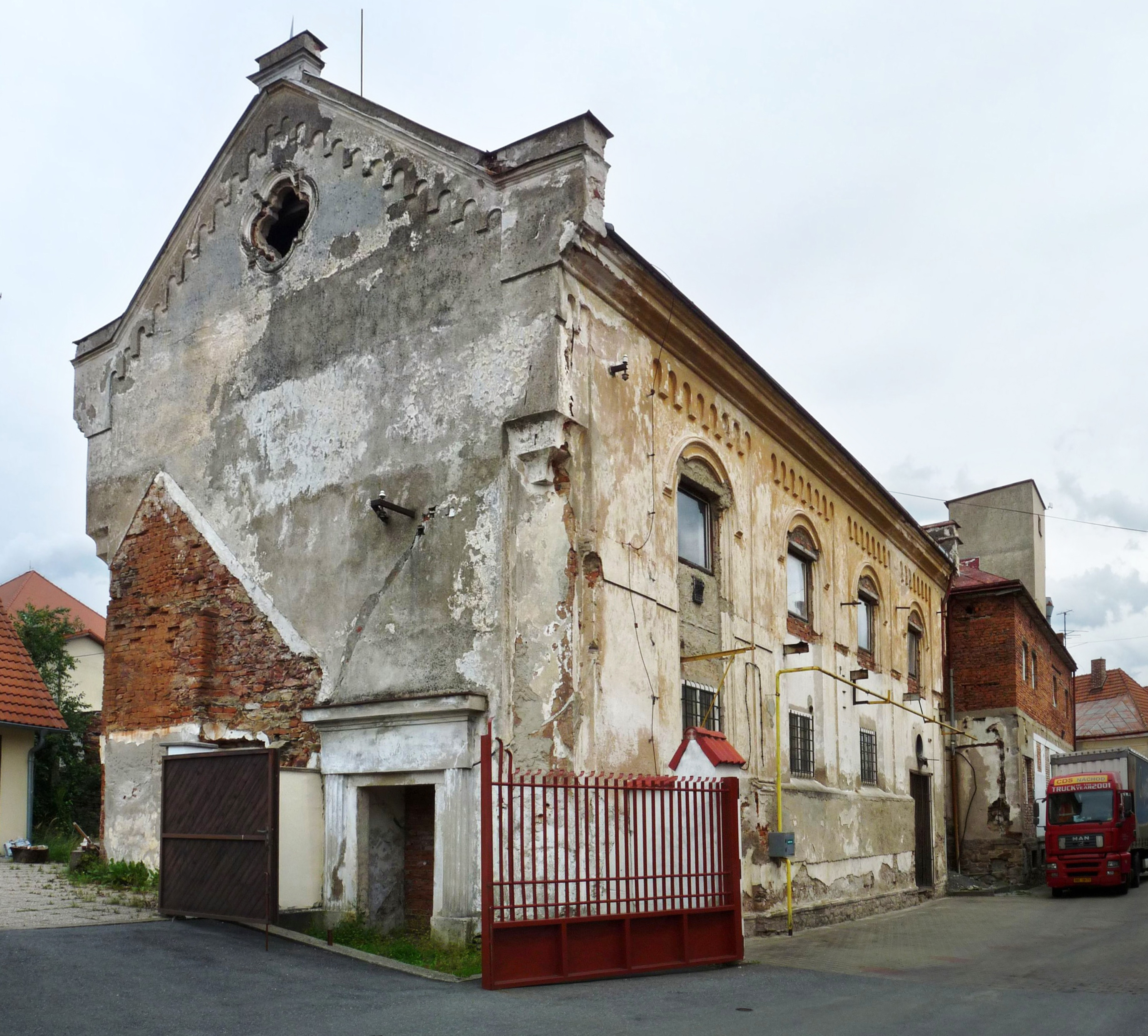 Synagogue in the town of Pacov, Pelhřimov District, Czech Republic.